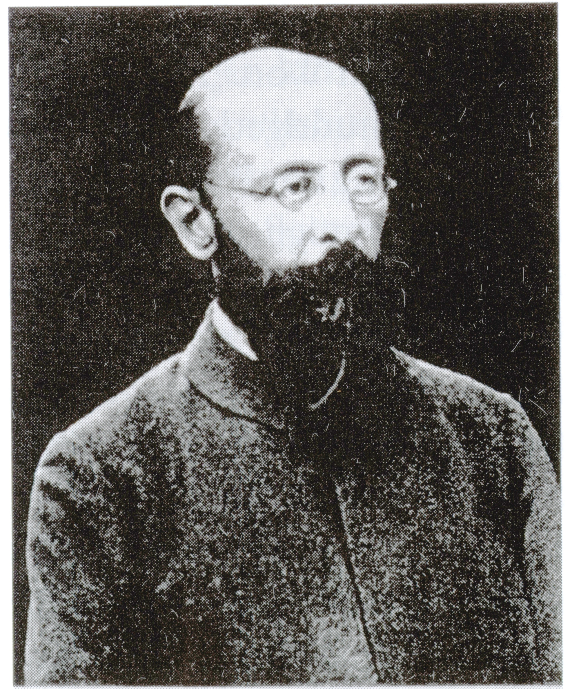 i